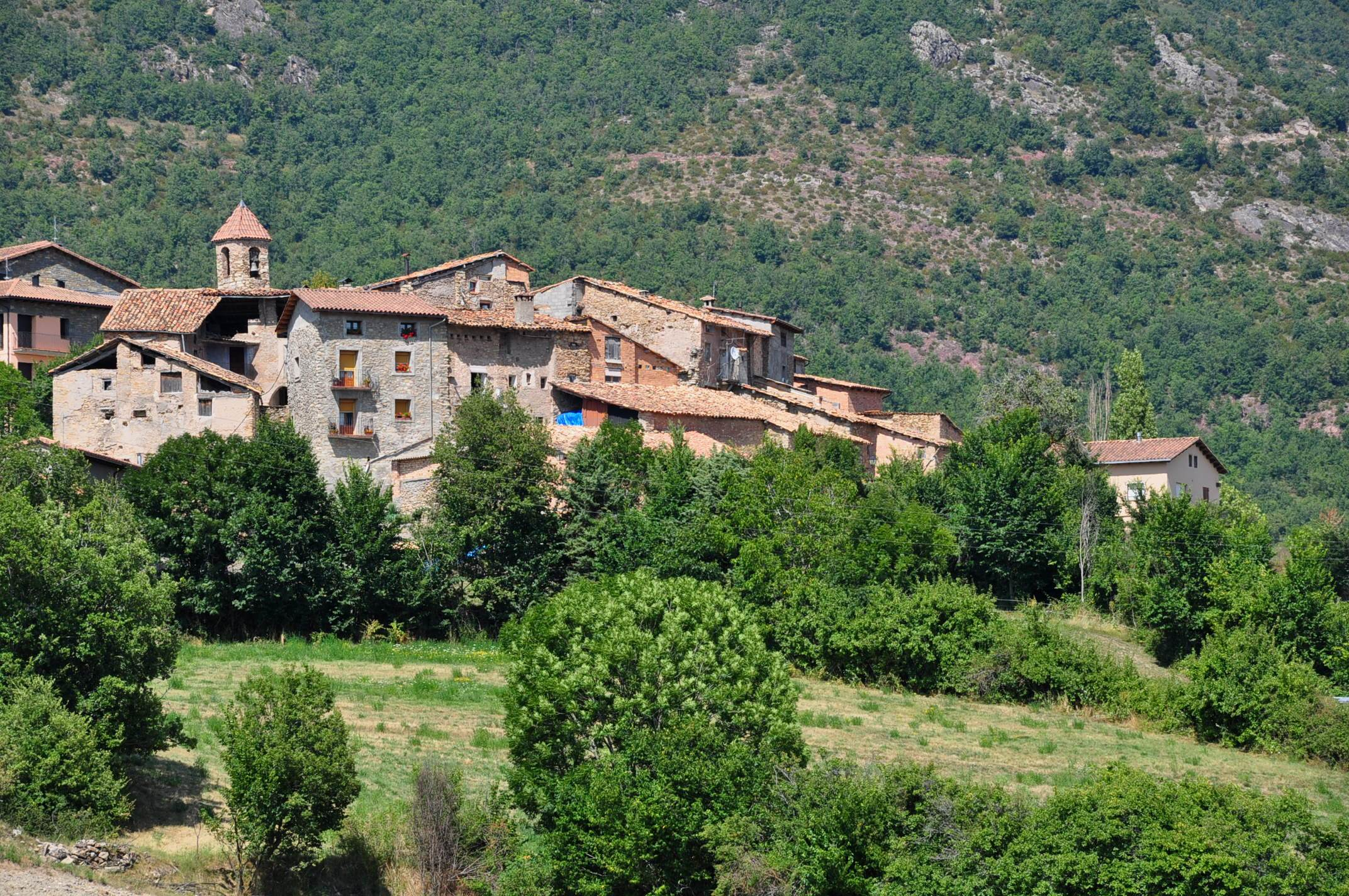 The village of Gotarta in the Pyrenees (municipality El Pont de Suert, district of Alta Ribagorça, Catalonia, Spain).